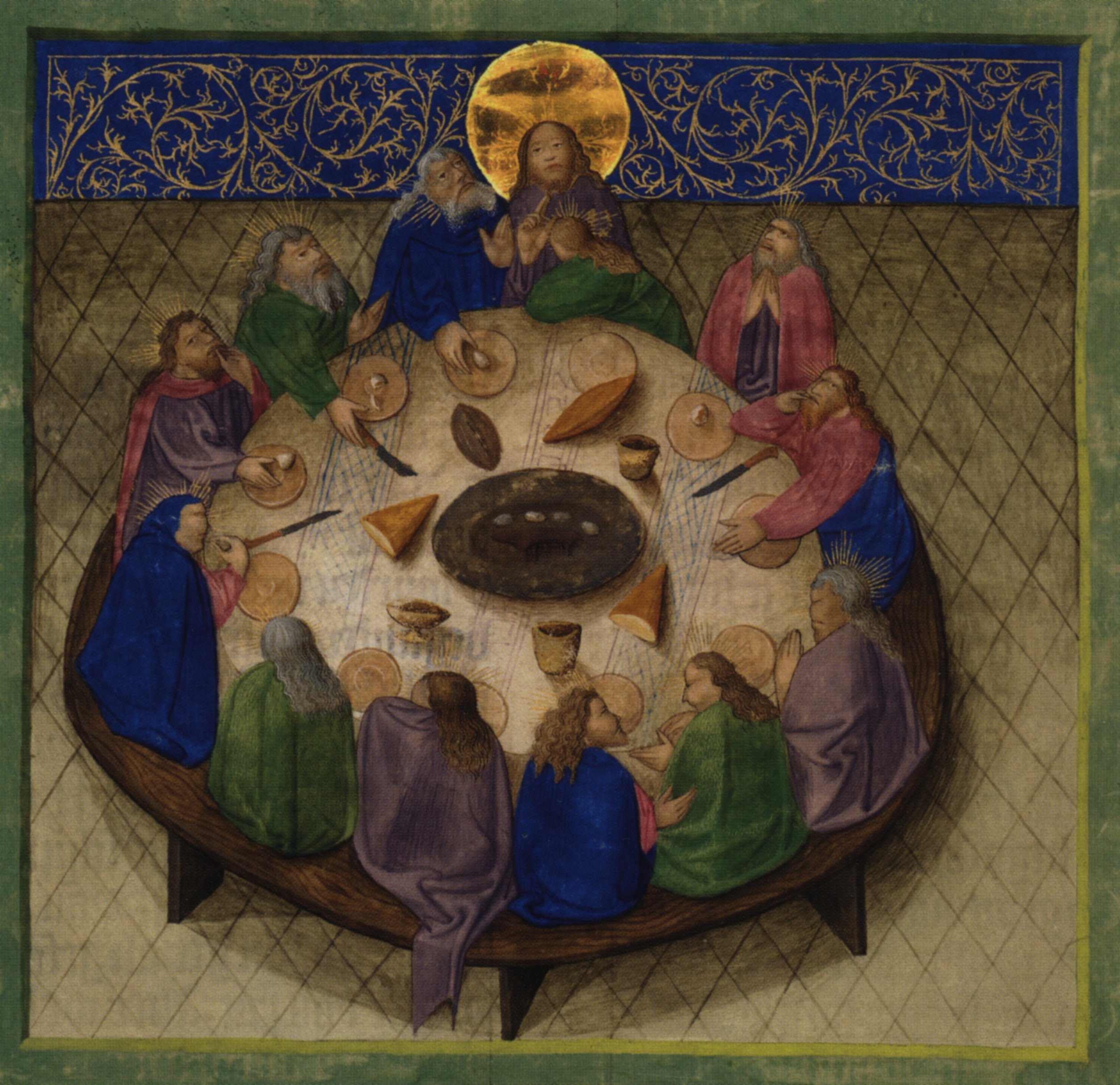 Page 40v: Last Supper, Mt 26:20-29